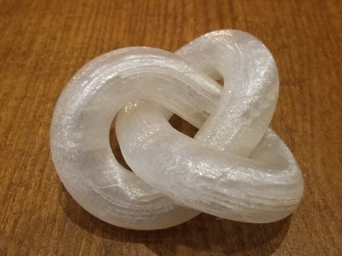 Trifoil, 3D printed